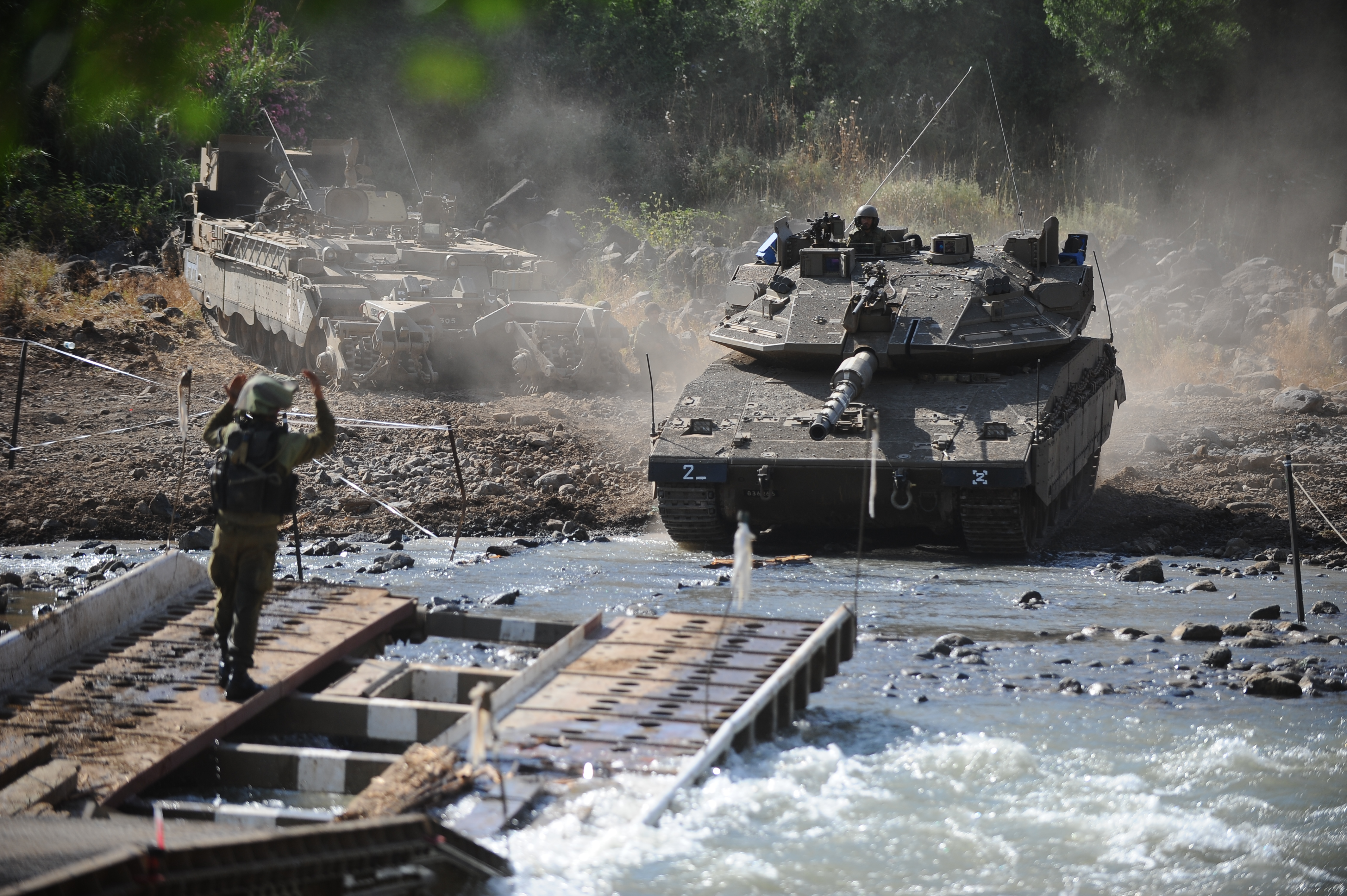 IDF ground forces practice a river crossing. The drill included soldiers from combat engineering, tanks, artillery and infantry units. Featured as IDF Photo of the Day on June 4, 2012 The Israel Defense Forces Facebook • blog • Twitter Photo taken by Staff Sgt. Ori Shifrin, IDF Spokesperson's Unit